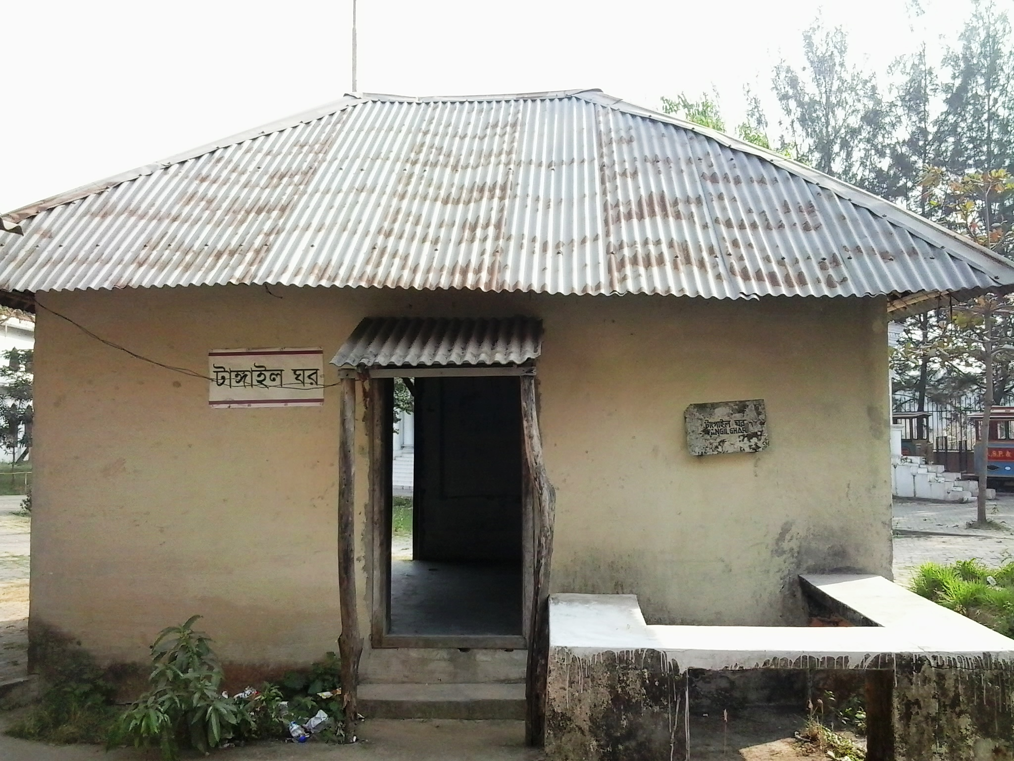 Tangail ghar